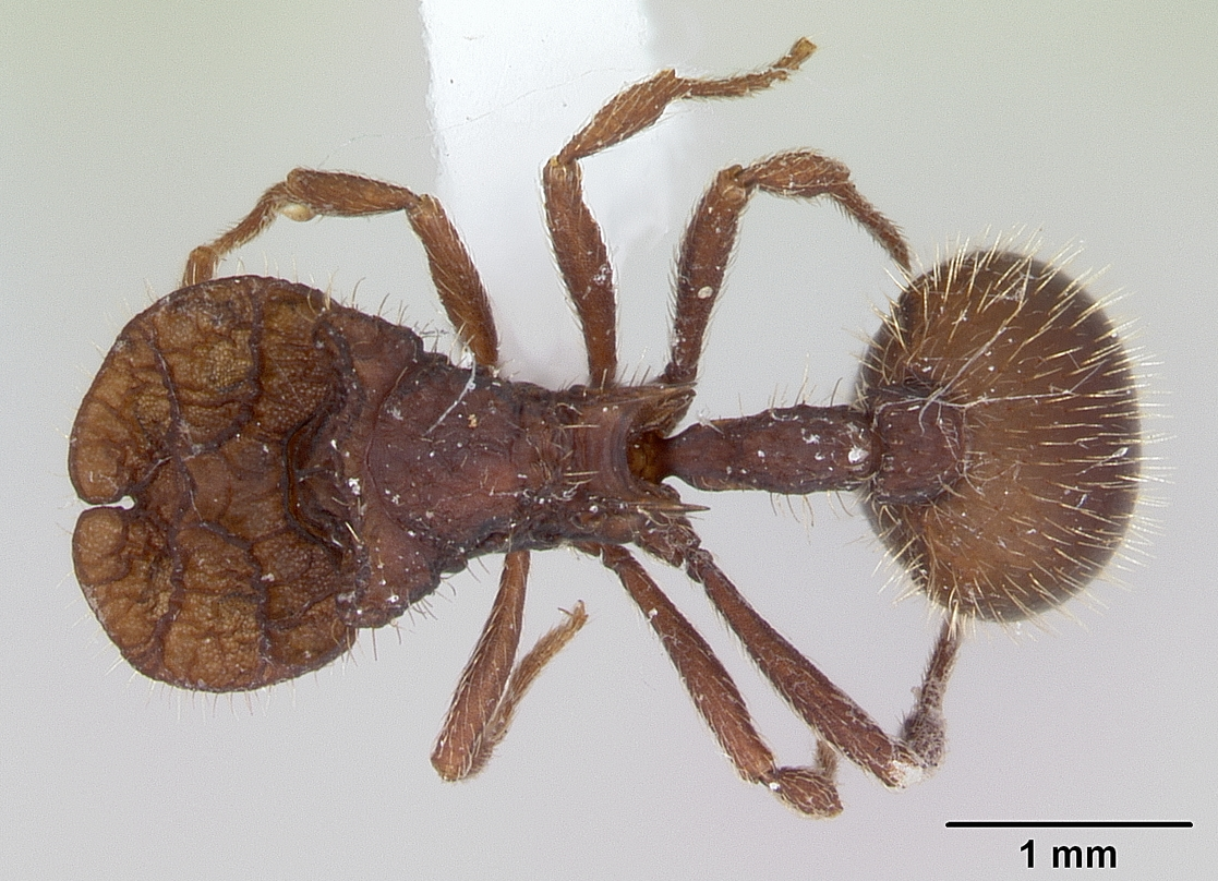 Dorsal view of ant Blepharidatta conops specimen casent0173884.